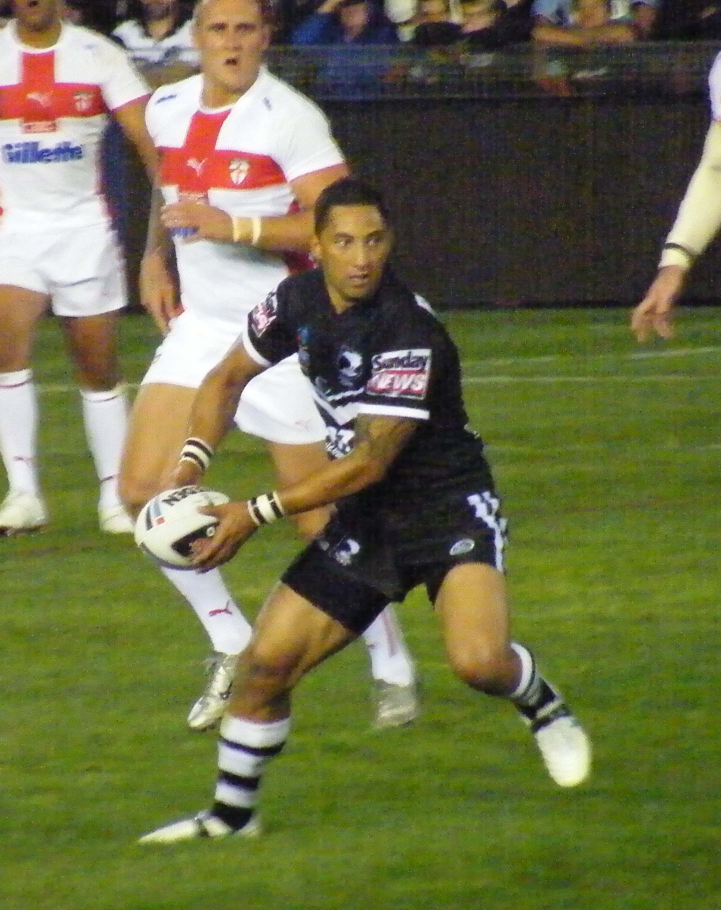 Benji Marshall